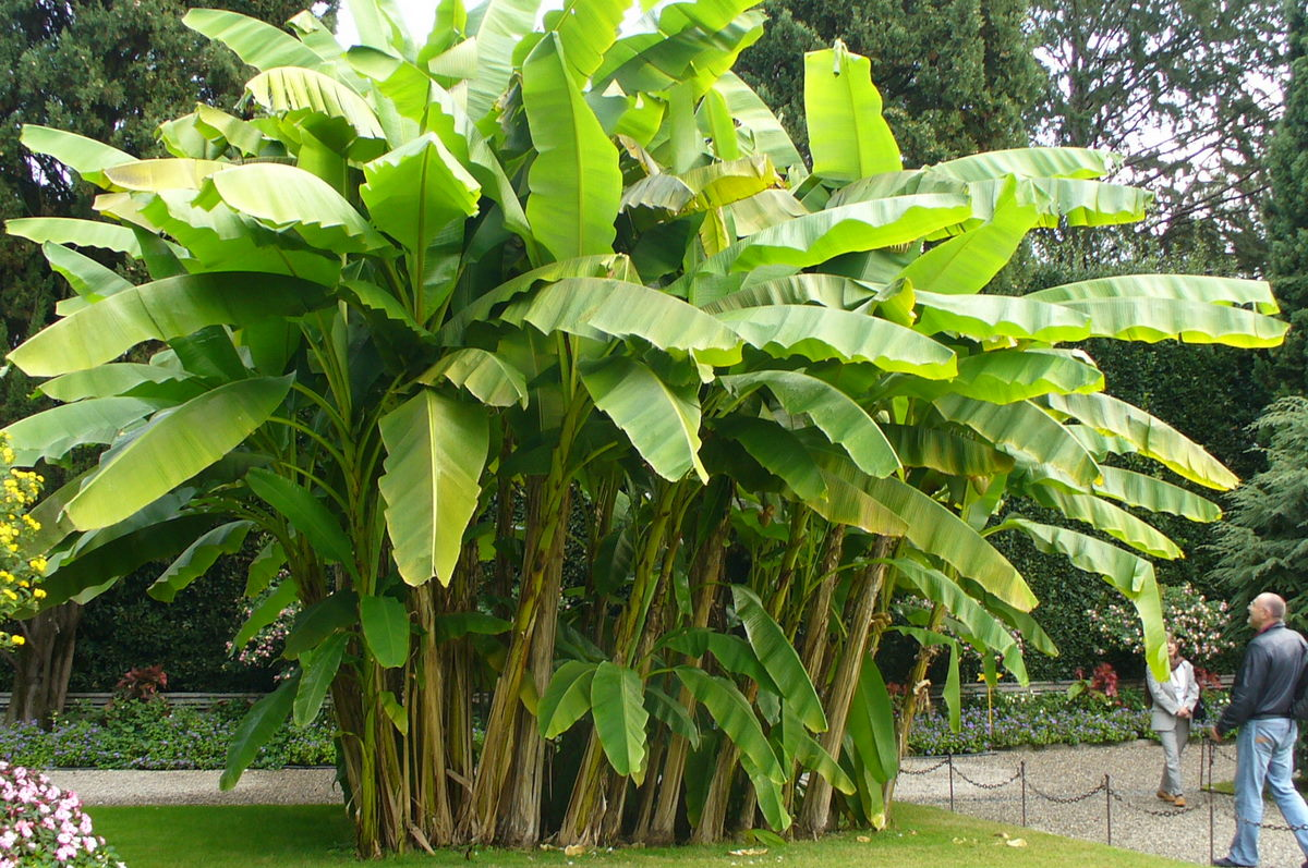 Banana tree in the garden of Isola Bella, Lago Maggiore